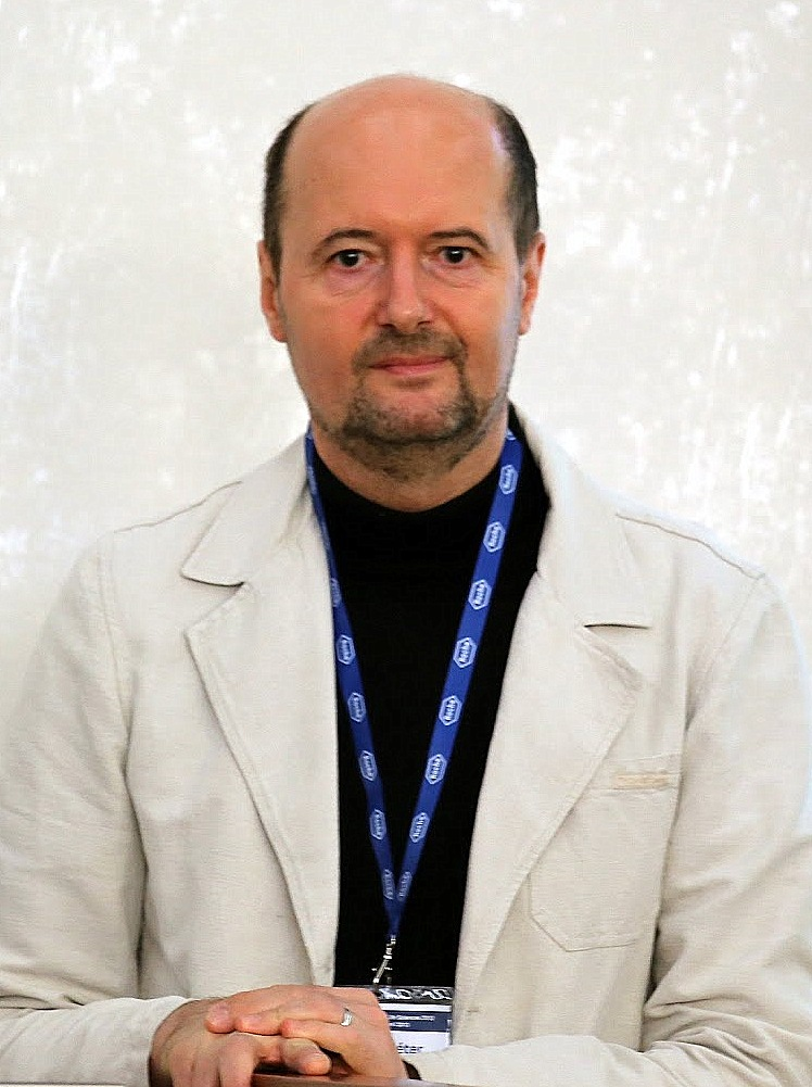 Csermely Péter, 2013